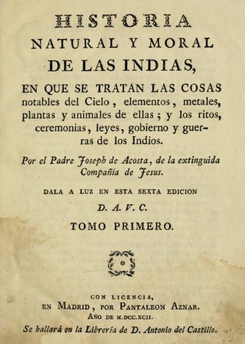 Natural and moral history of the Indies, which deals with the remarkable things of heaven,etc..